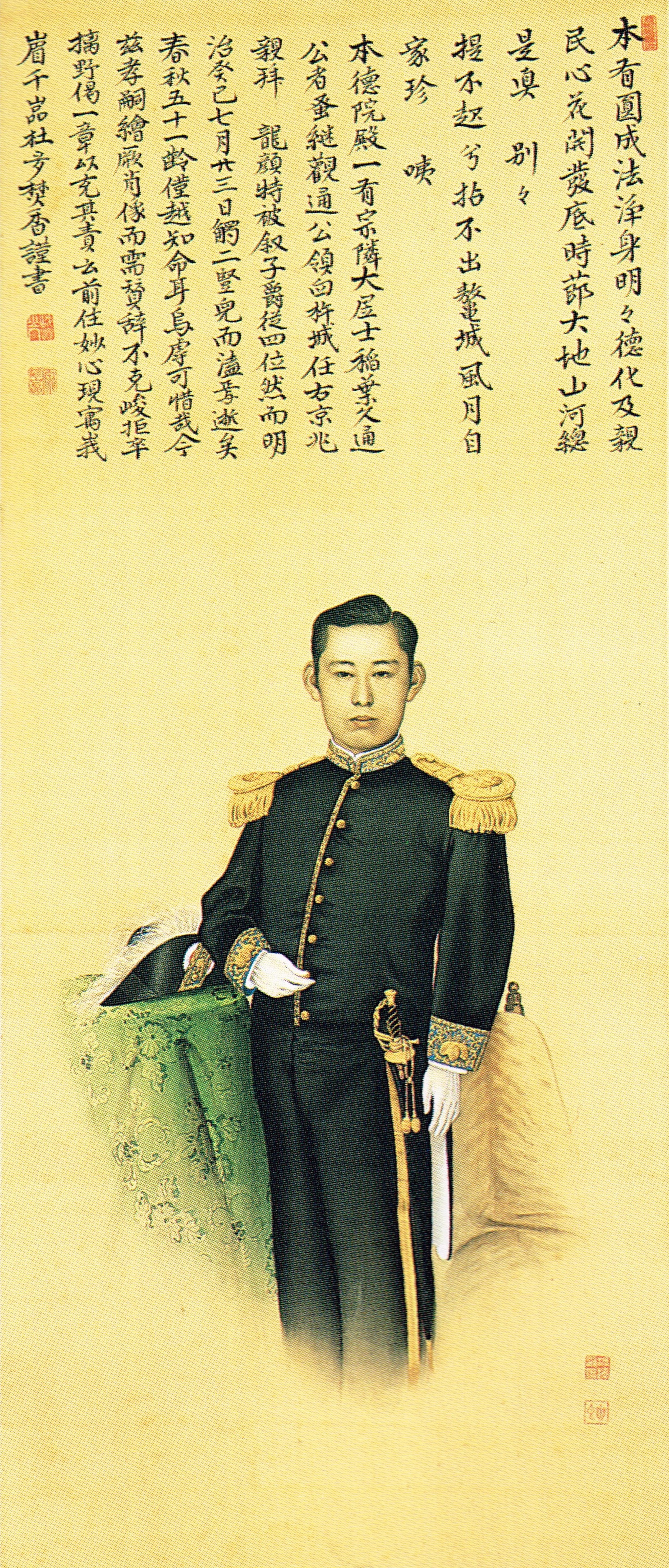 Portrait of Inaba Hisamichi, owned by Gekkei-ji Temple in Usuki, Oita, Japan